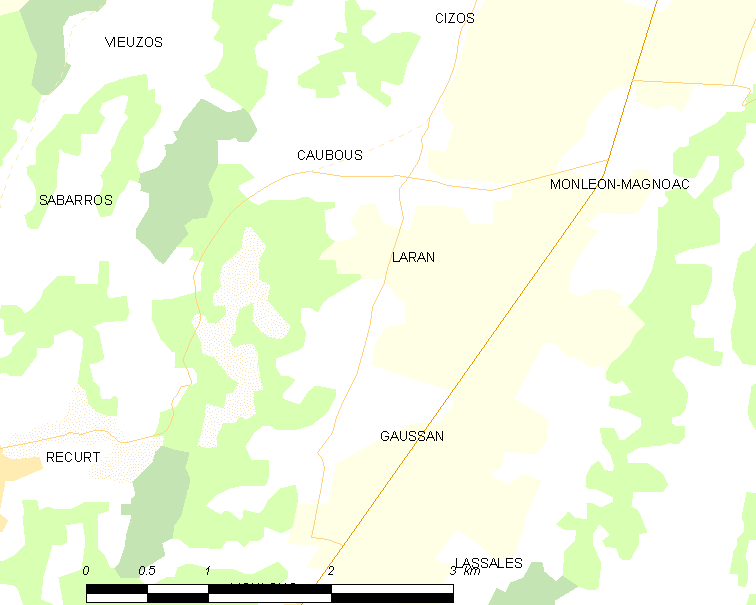 Map of French municipality